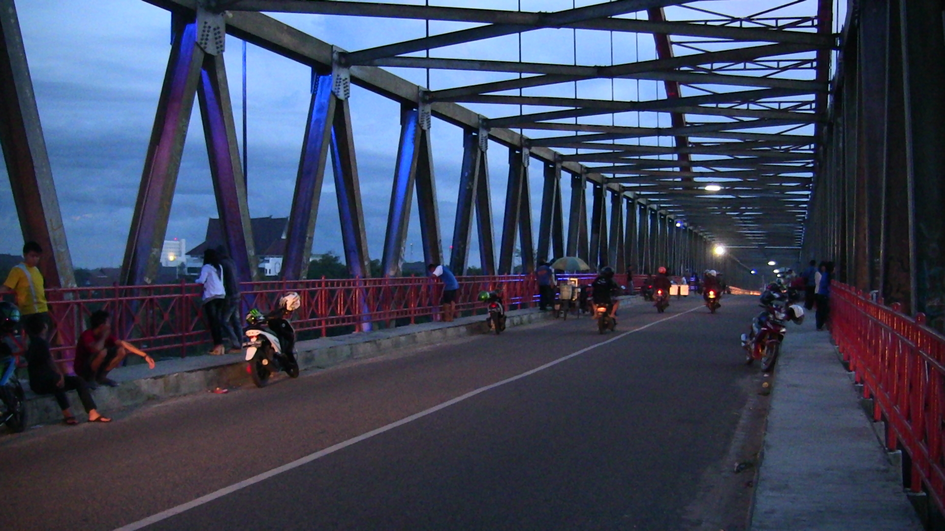 Kahayan Bridge, Palangka Raya, Central Kalimantan, Indonesia